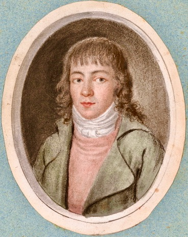 Portrait around 1801, watercolor and pastel in the "Green Book" by Benjamin Bolomey (Historical Museum of Lausanne).